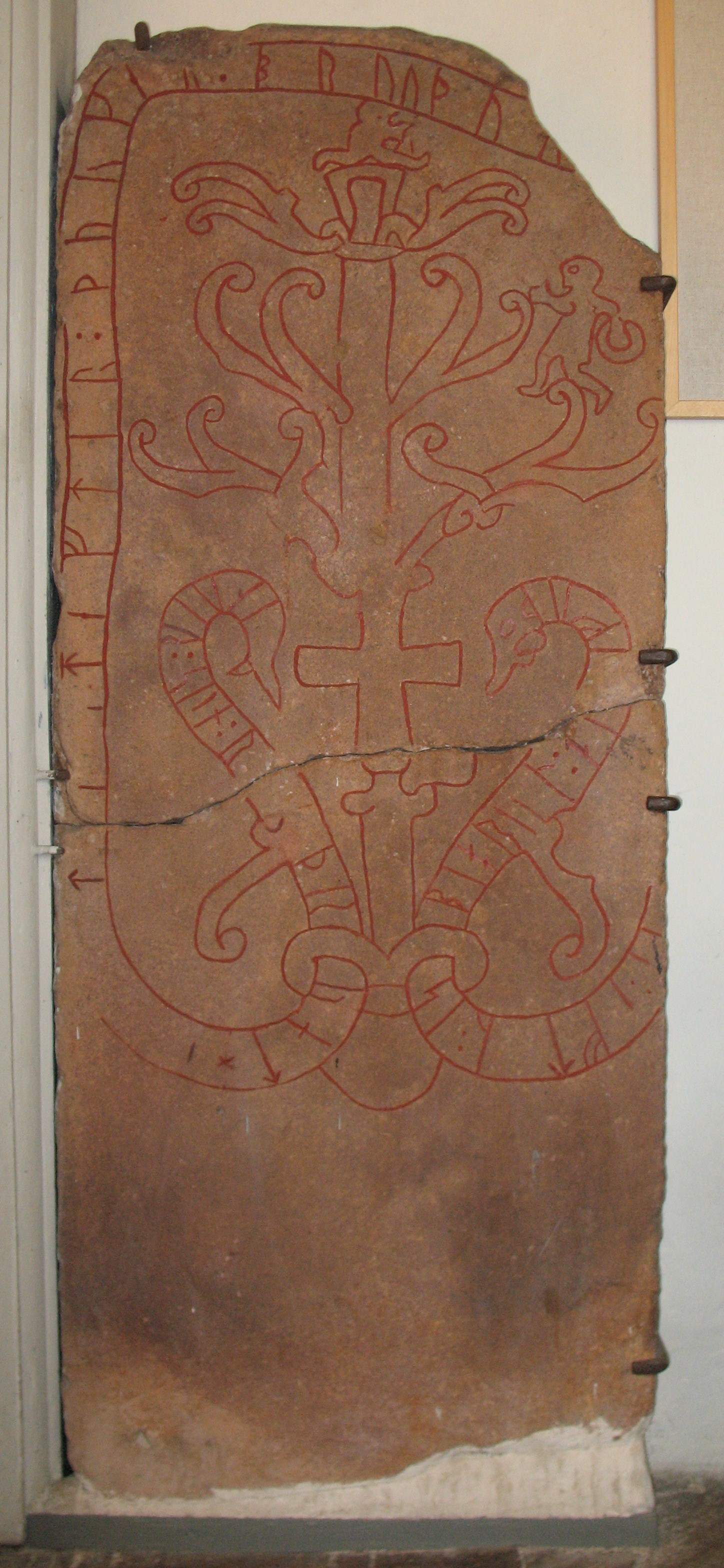 runestone Gs 9